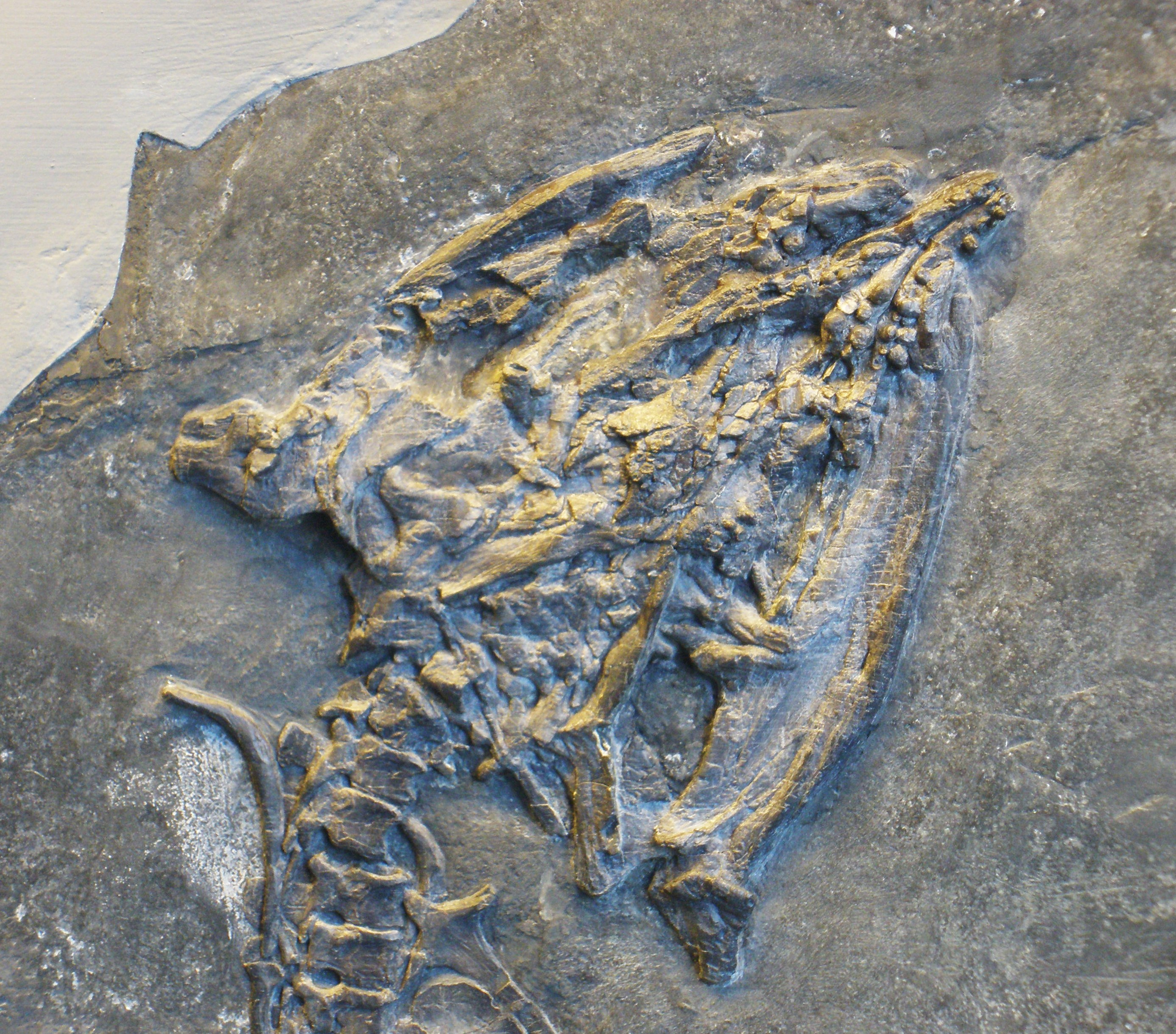 fossil Clarazia